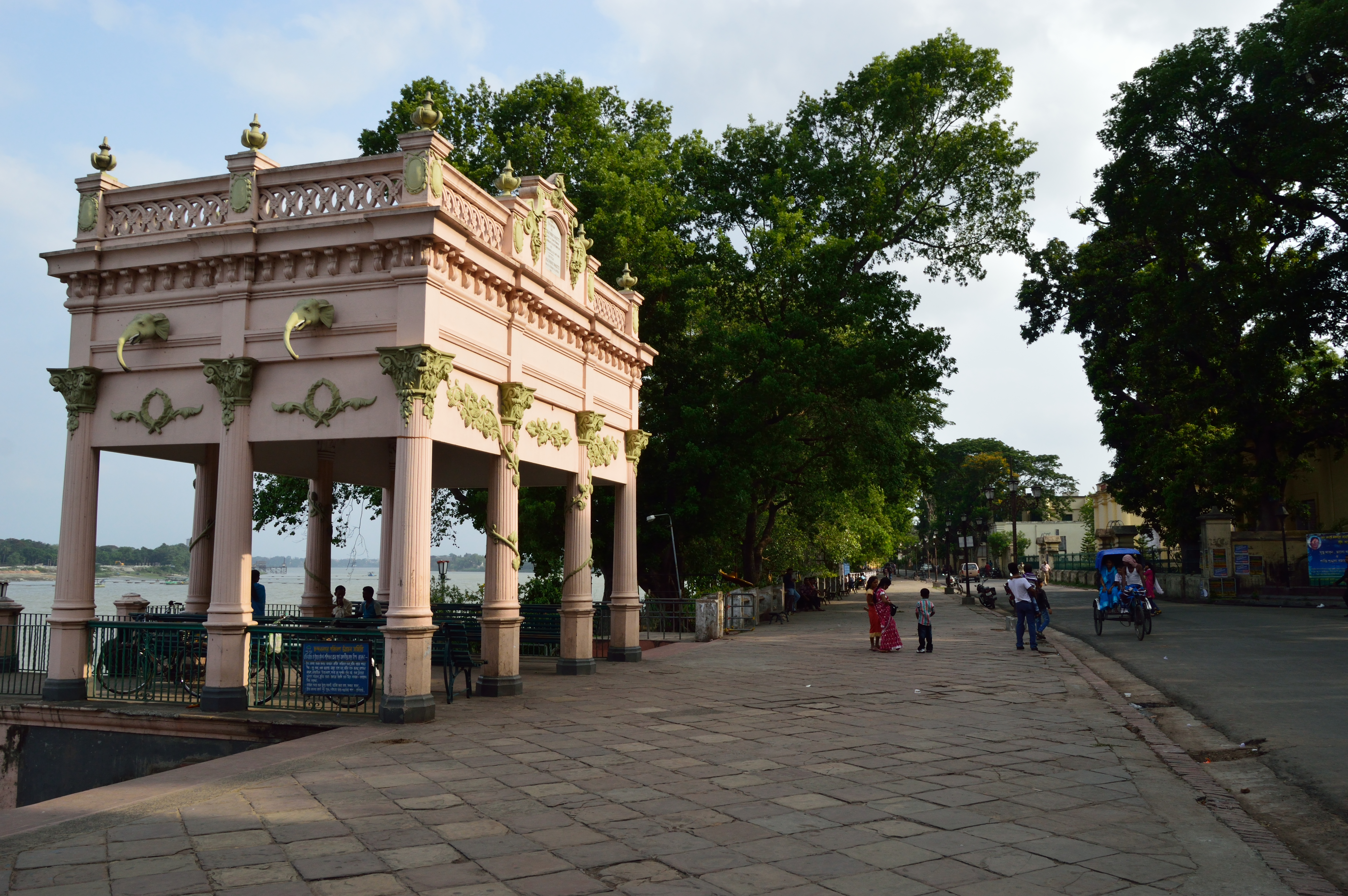 The Dourgachorone Roquitte or Durgacharan Rakshit souvenir, Chandan Nagar, Hooghly, West Bengal, India.